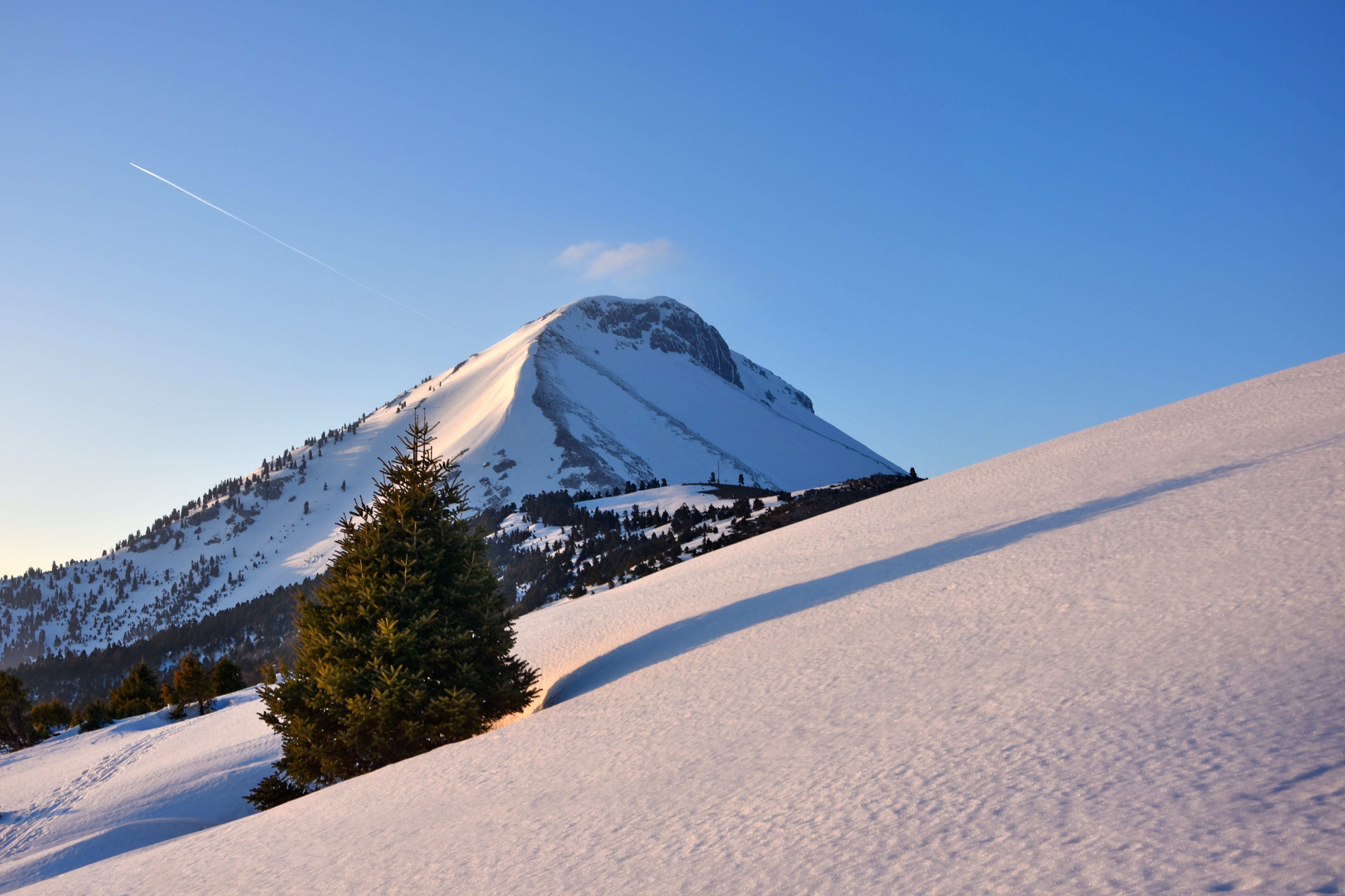 This is a photography of Natura 2000 protected area with ID GR2420002